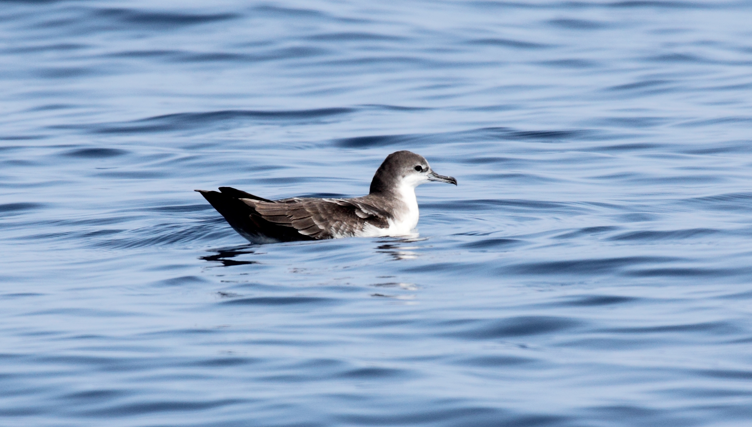 Galapagos Shearwater (Puffinus subalaris)